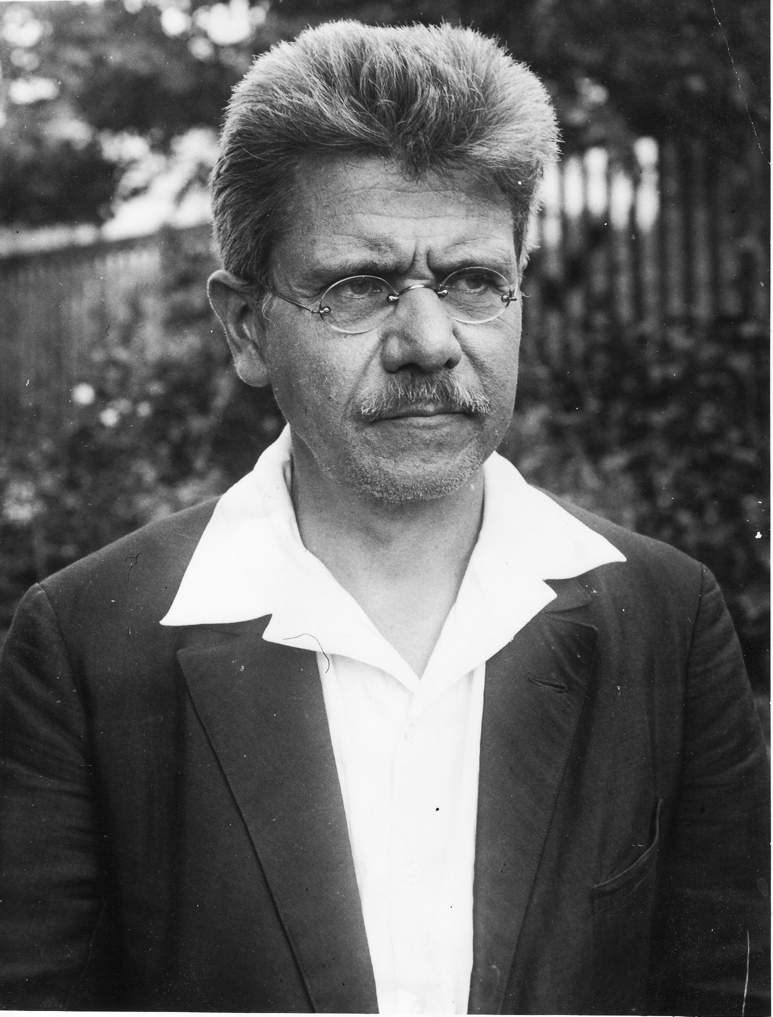 photo of Alexandr Sommer Batěk